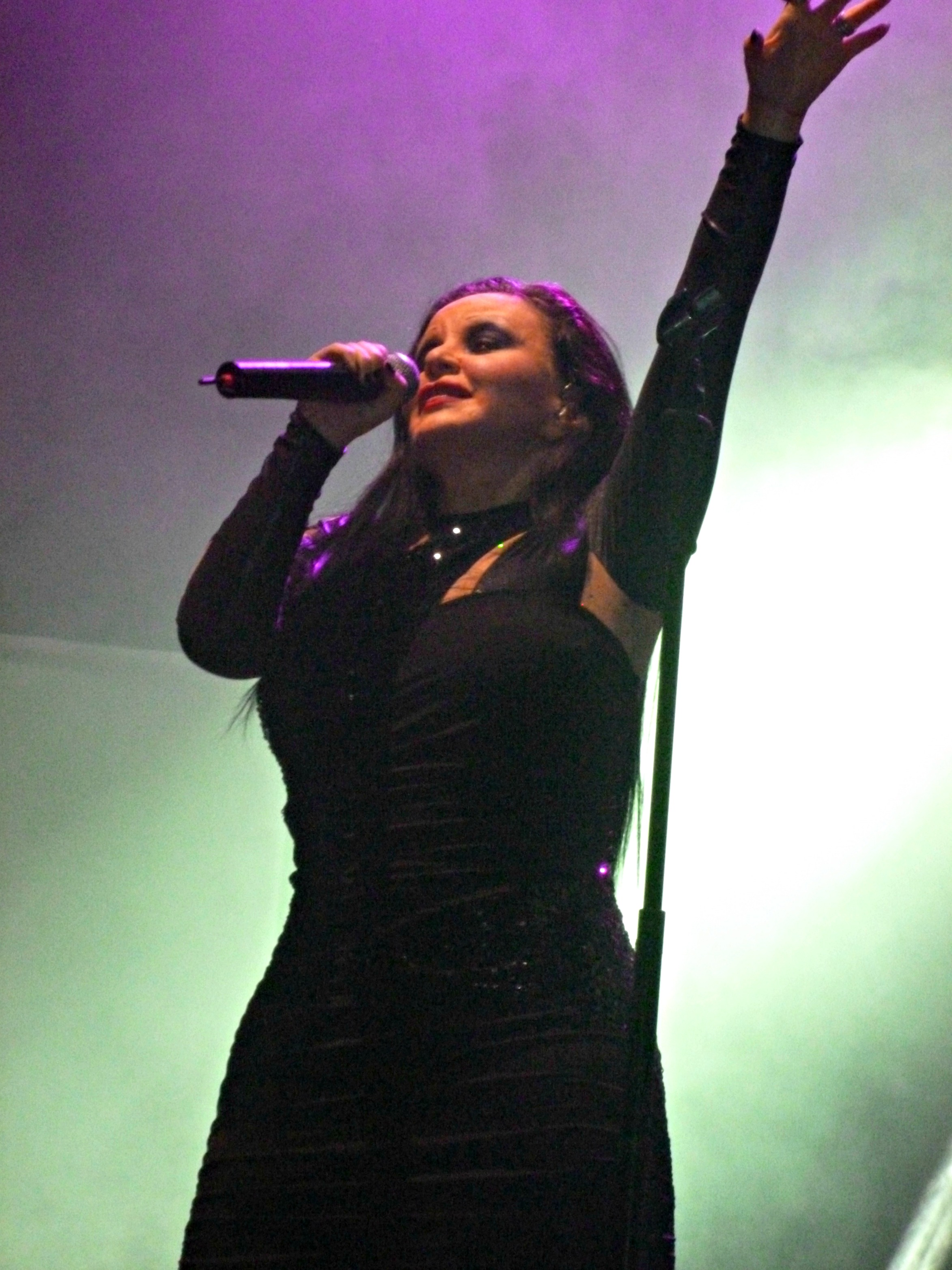 Alaska singer performing in Almería, Spain on August 2013